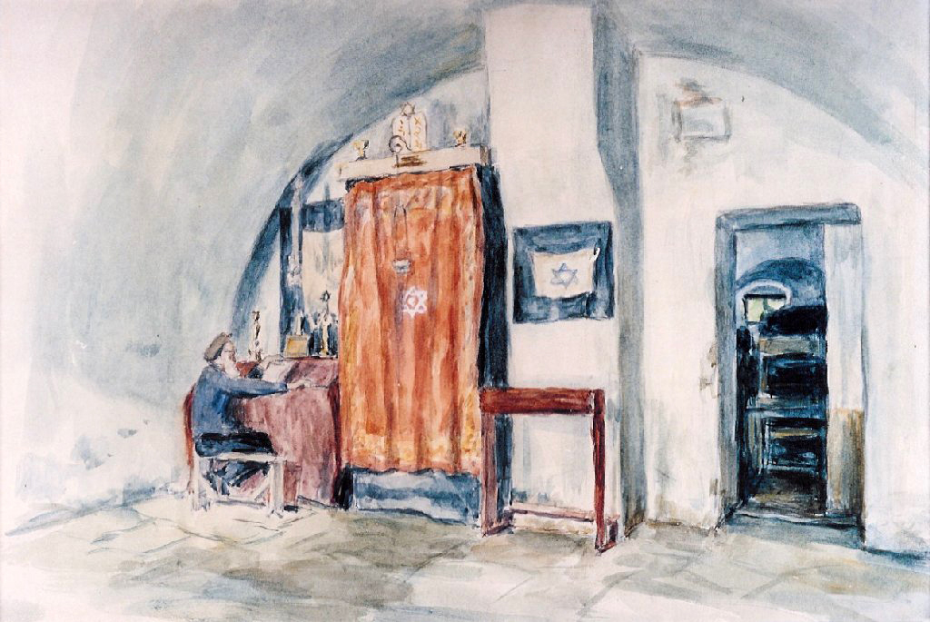 Artwork from the Theresienstadt ghetto